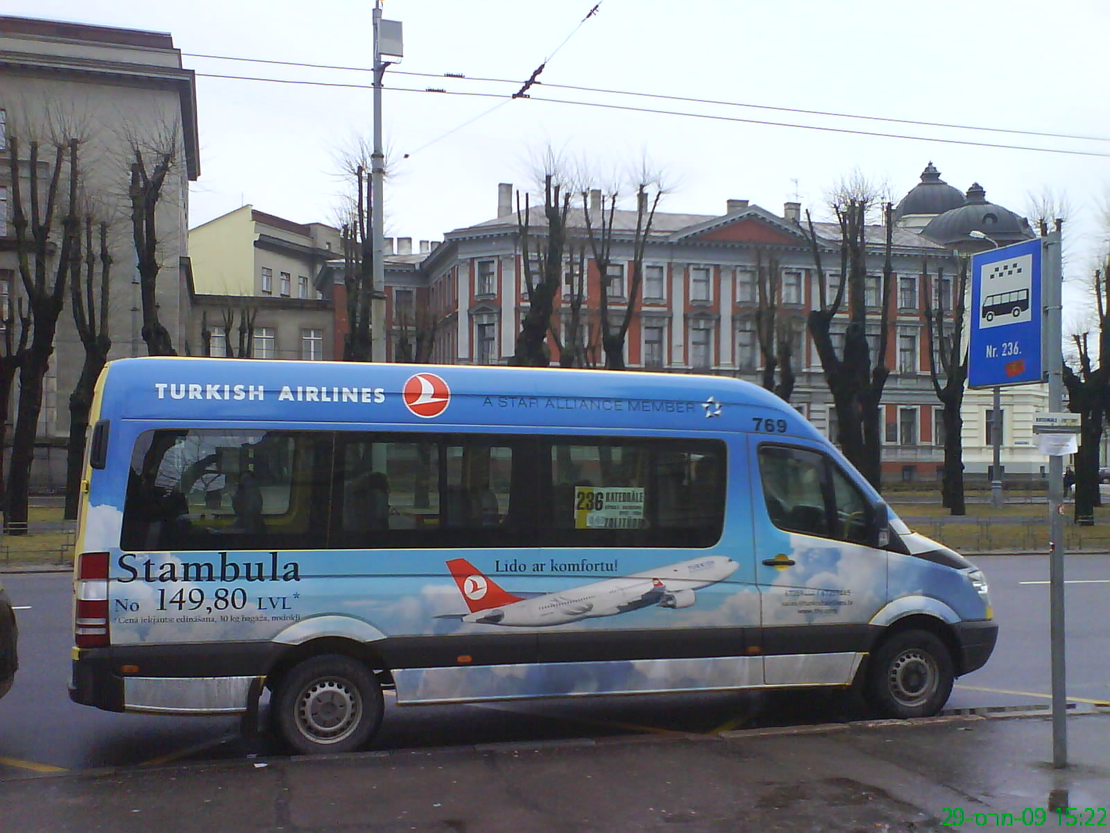 Marshrutka in Riga